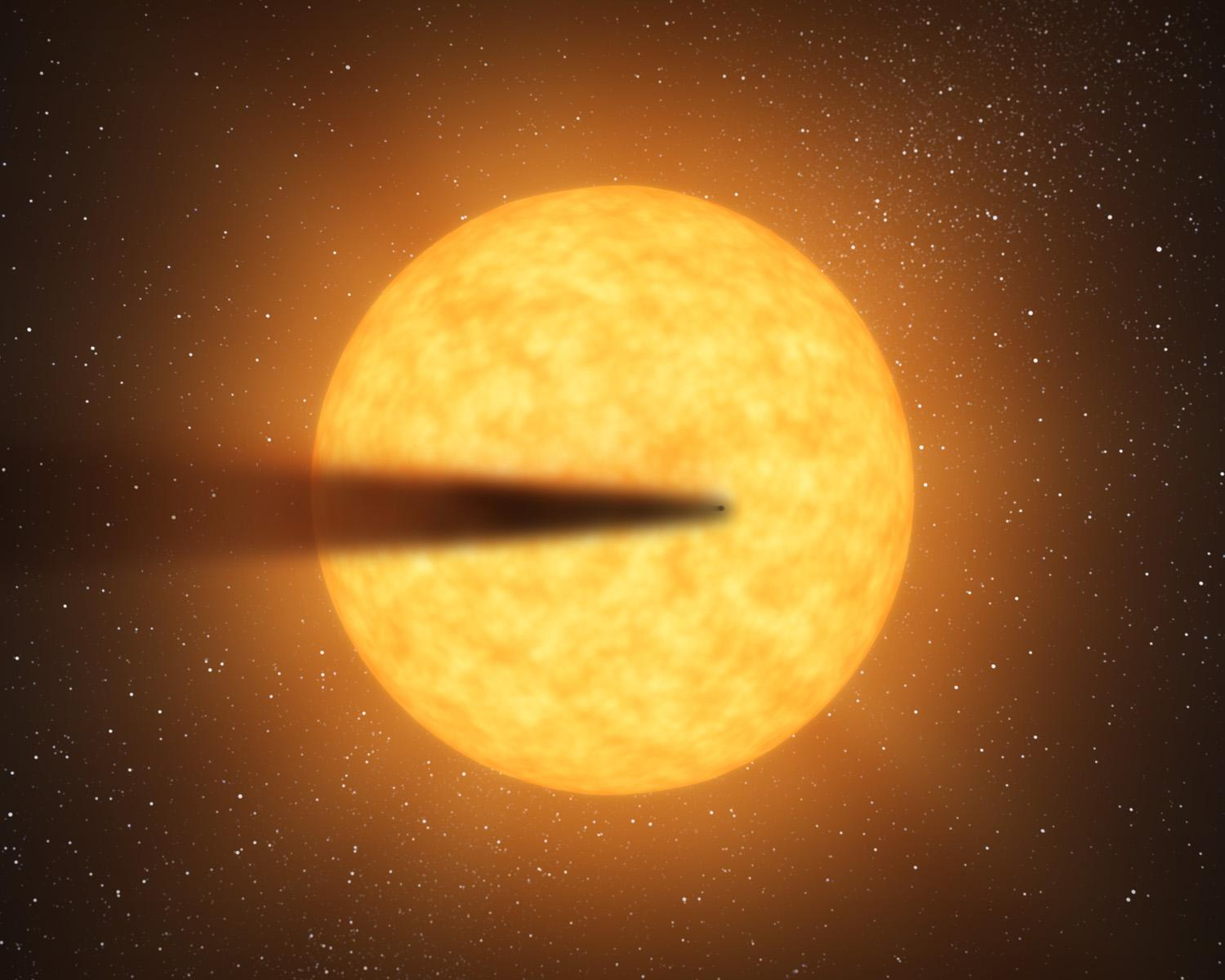 Artist's concept of KIC 12557548 b, a newly discovered but unconfirmed extrasolar planet with a dust tail. orbiting its host star KIC 12557548.